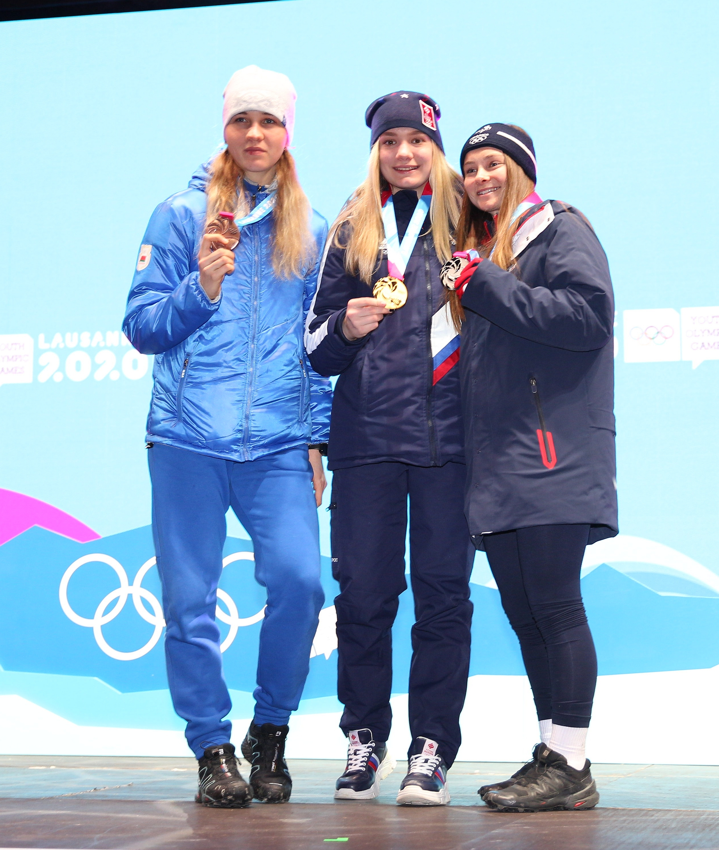 Medal ceremony of Biathlon – Women's Individual at the 2020 Winter Youth Olympics in Lausanne on 11 January 2020.